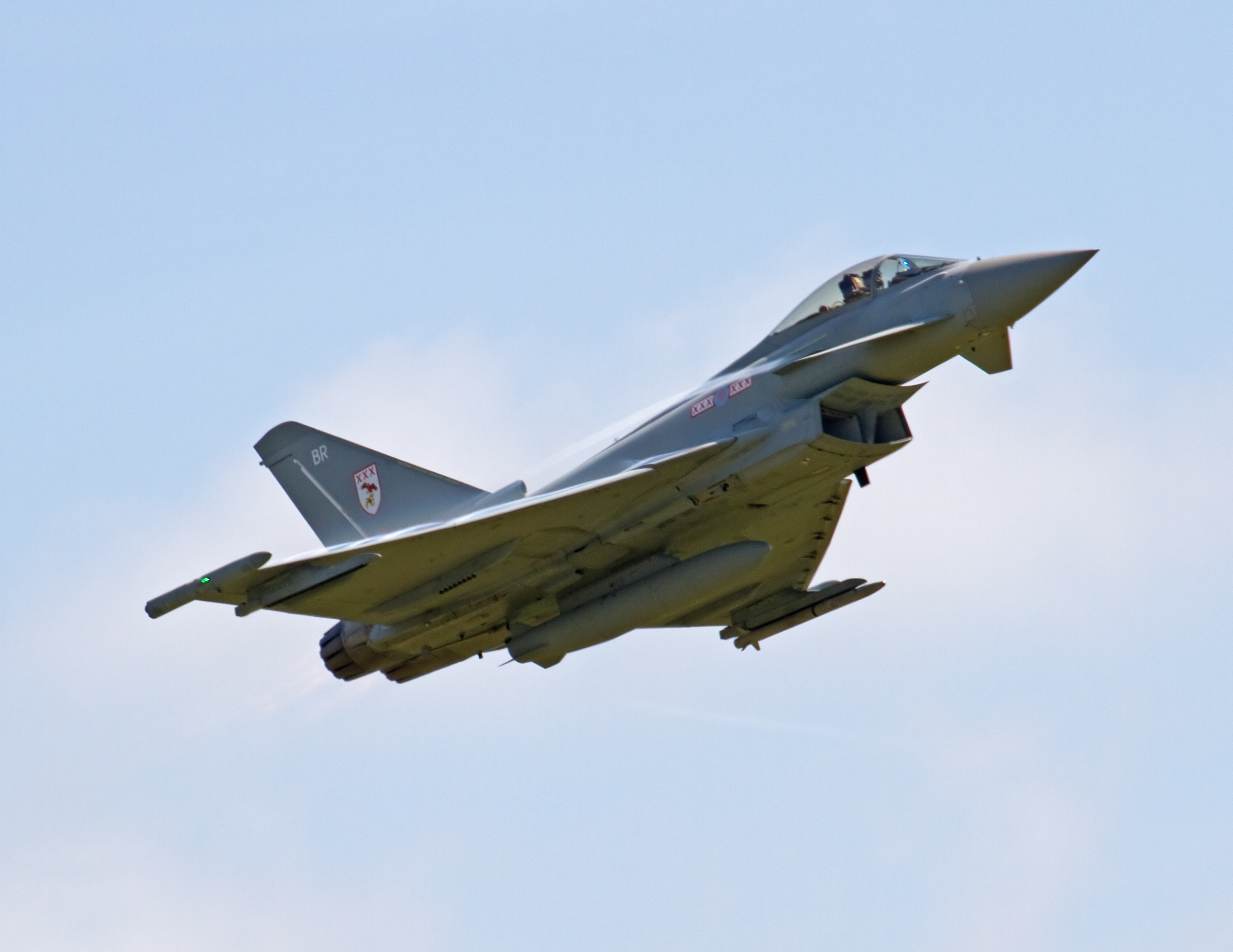 Typhoon 2